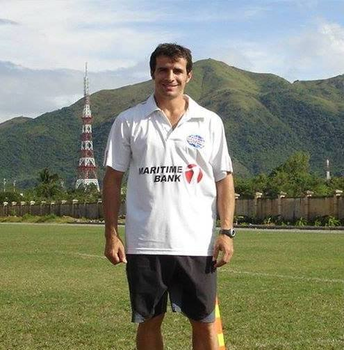 Ricardo in Vietnam with Becamex Binh Duong. ; Gò Đậu Stadium ; Thủ Dầu Một, Vietnam